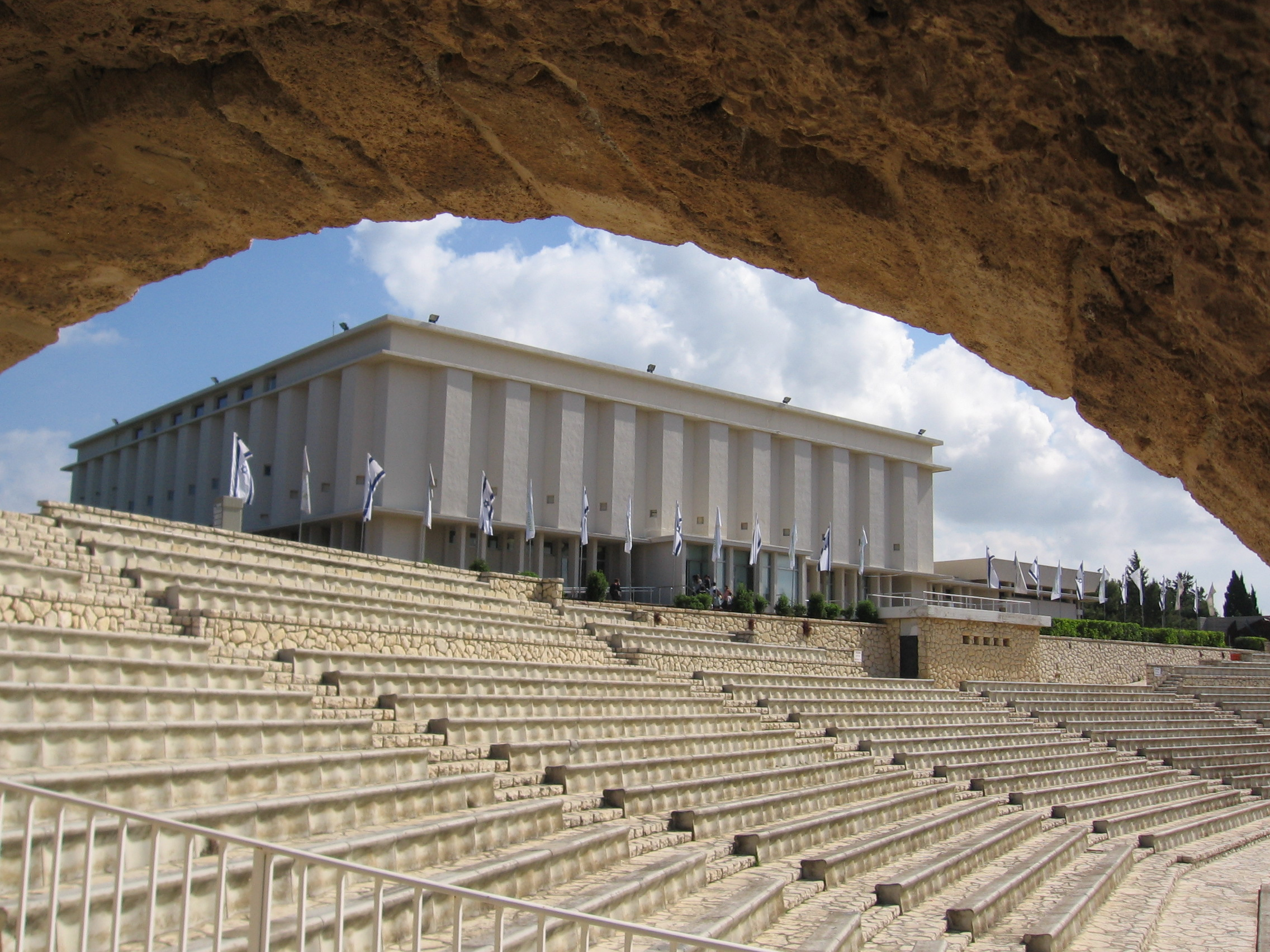 Ghetto Fighters' House through the aqueduct